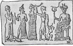 "Babylonian cylinder seal representing the sacrifice of a child. (Hematite cylinder seal originally from the collection of the duke of Luynes) The drawing from Menant (1883) was also used to illustrate the topic "Moloch" in the 1906 Jewish Encyclopedia.